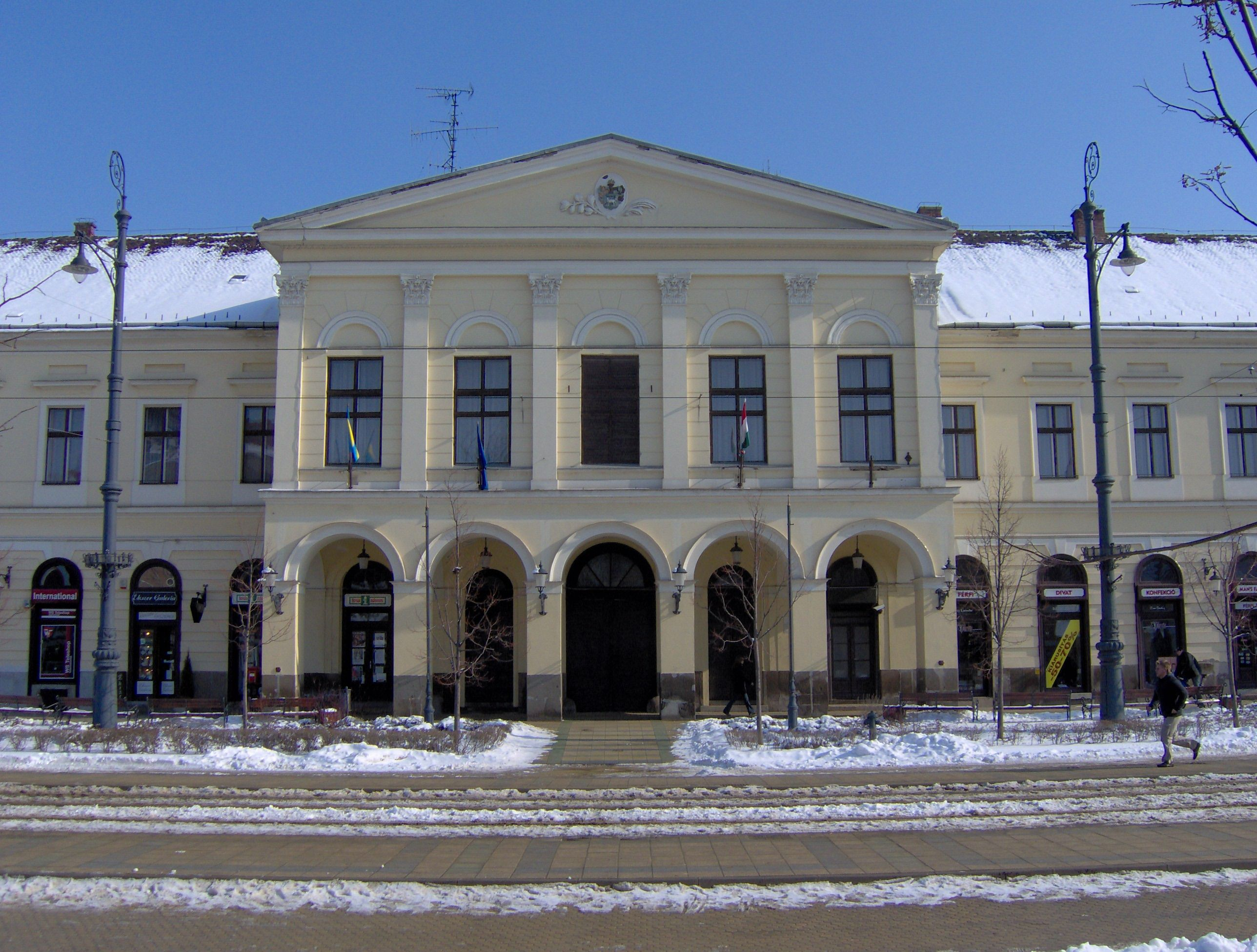 Old Town Hall of Debrecen